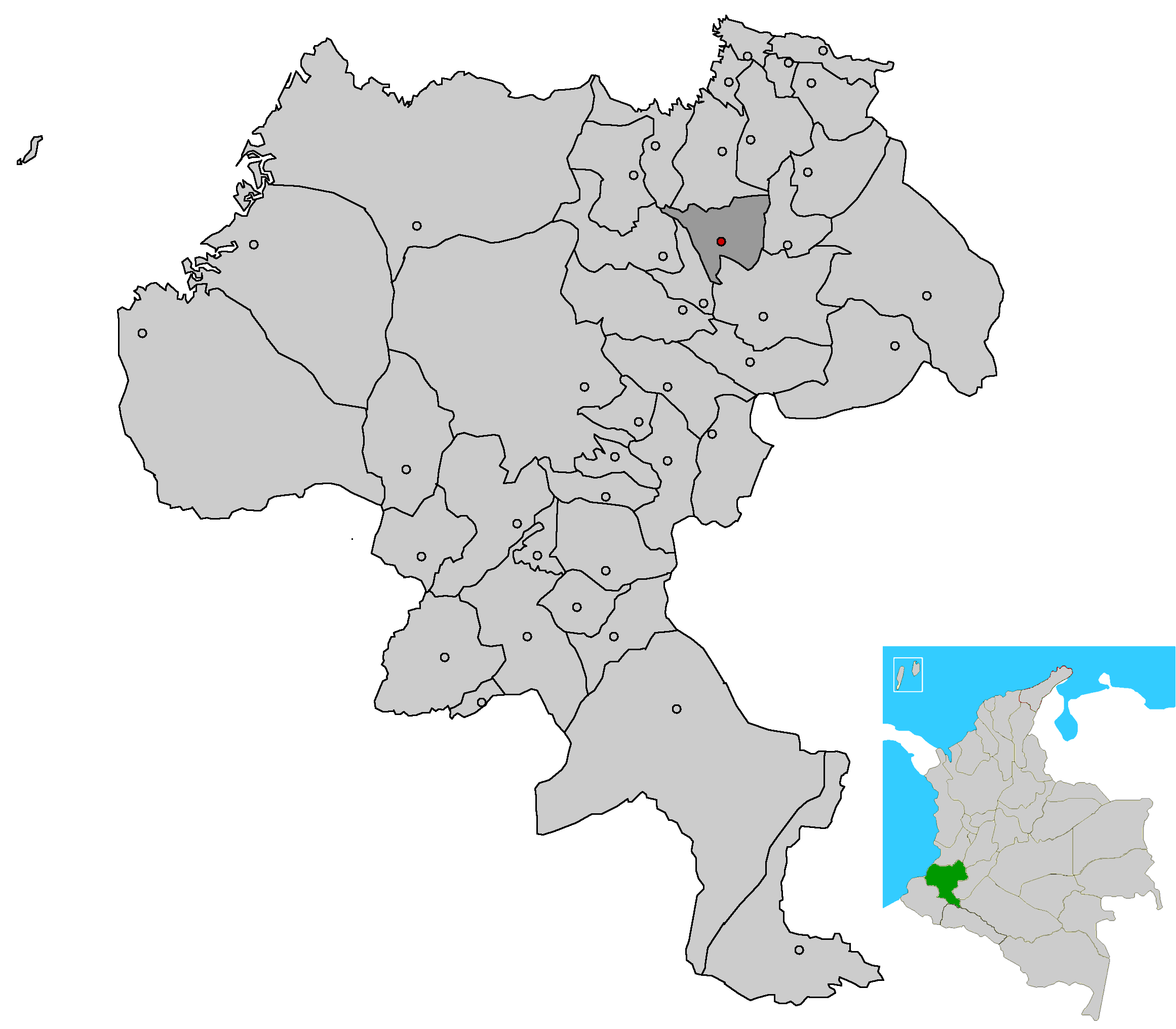 Image depicting map location of the town and municipality of Caldono in the Cauca Department, Colombia